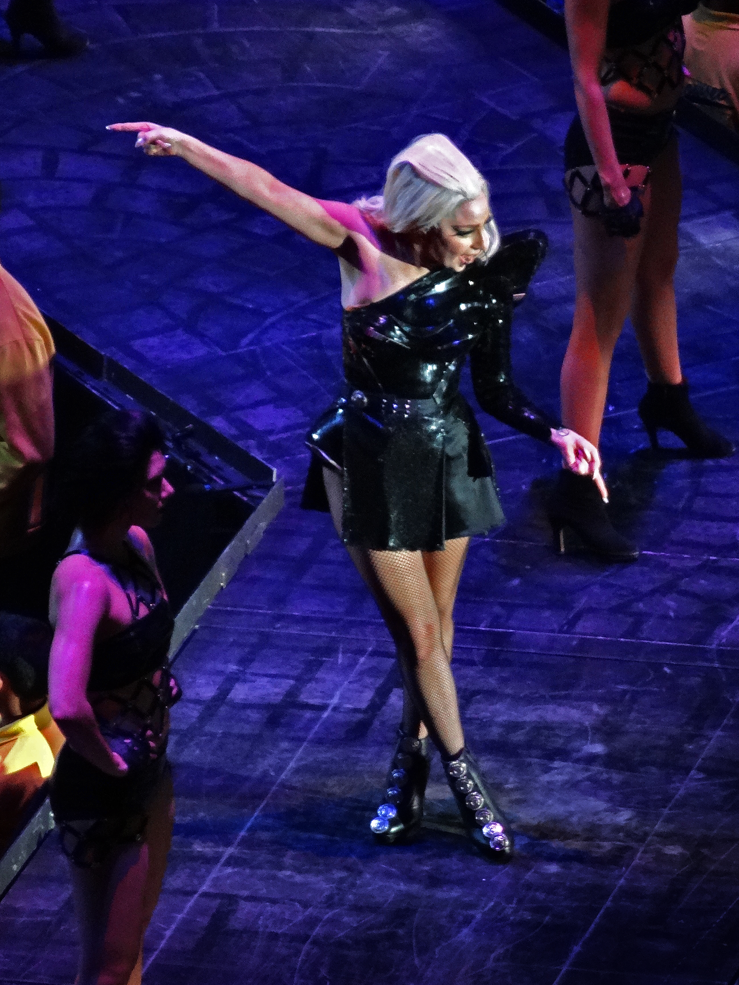 Lady Gaga performing "Telephone" on The Born This Way Ball Tour.